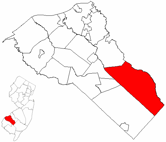 Map of Gloucester County highlighting Monroe Township